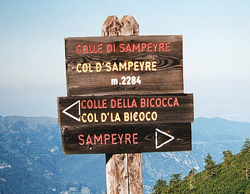 Colle Sampeyre Picture taken by user Idéfix in 1998